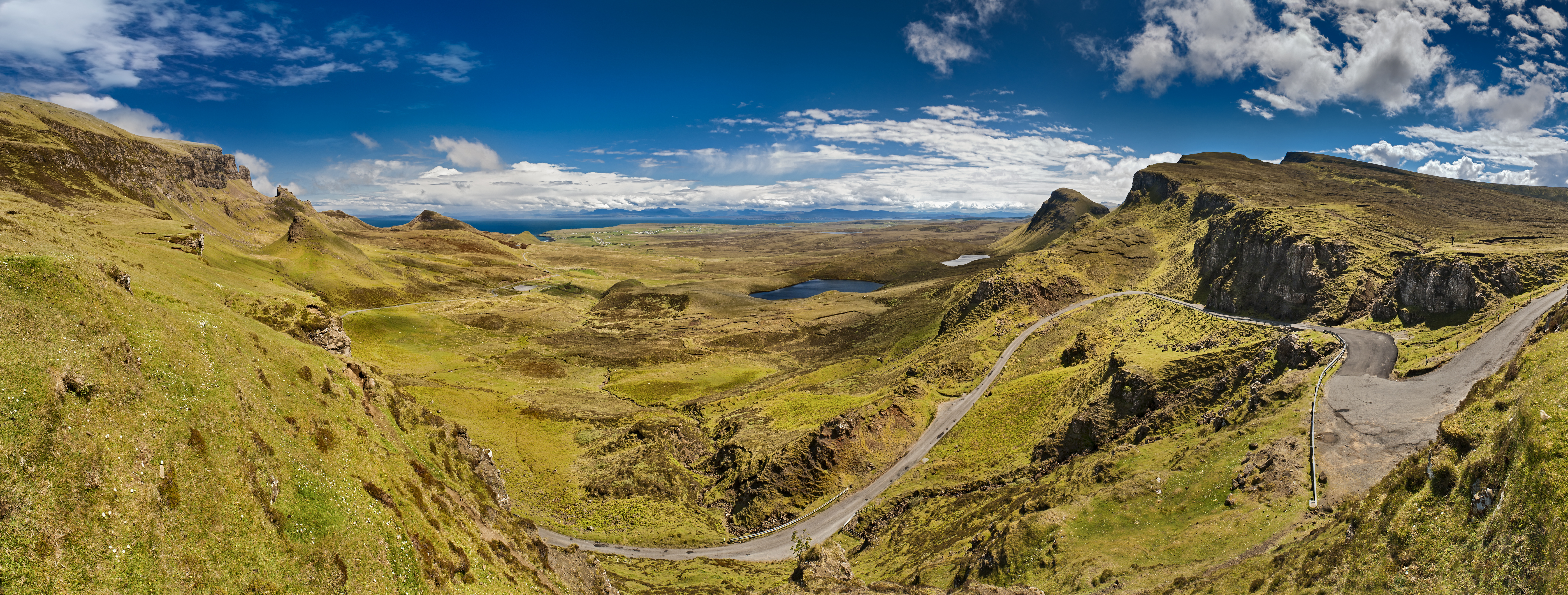 View from Quiraing to the Staffinbay. Isle of Skye, Scotland.